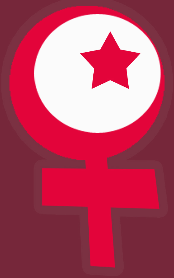 Symbol of Islamic Feminism, Muslim Feminism that incorporates the Crescent Moon and Star, the symbol of Islam with the Female symbol.